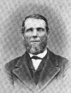 Ariel N Barney, head of Carp River Forge near Negaunee, MI